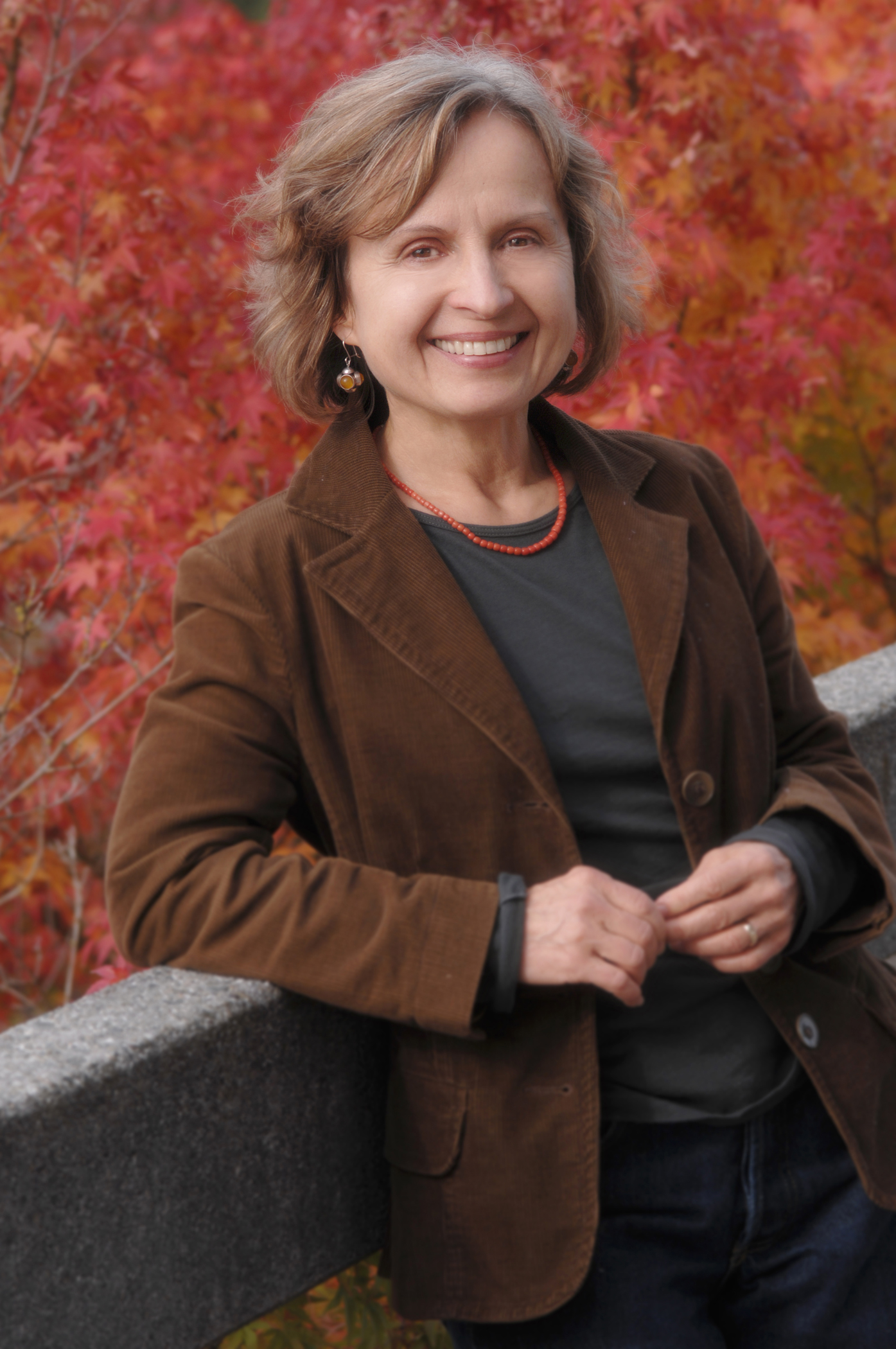 Senior math lecturer Malgorzata Dubiel was named this year to the 3M National Teaching Fellowship—an elite community of 228 of the country’s best university teachers.